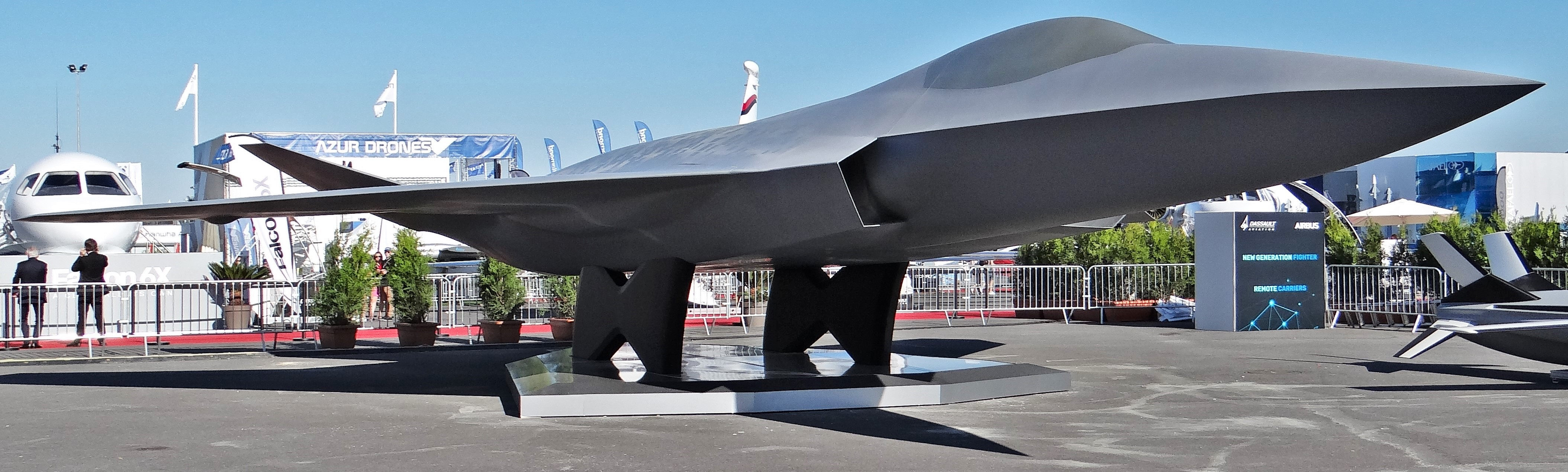 Model of the Future Air Combat System (SCAF) at the Paris-Le Bourget 2019 Airshow